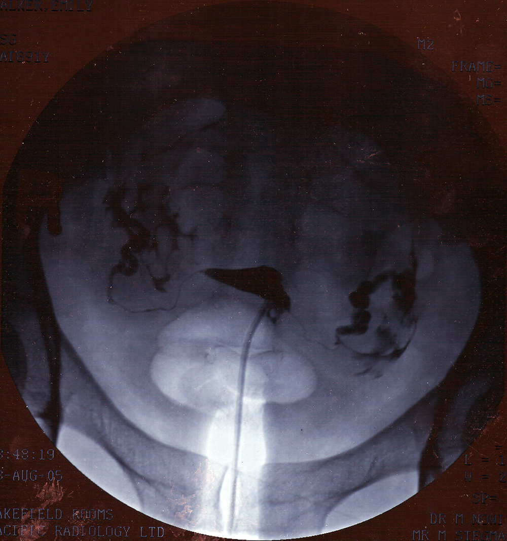 A hysterosalpingogram. Note the catheter entering at the bottom of the screen, and the dark contrast material filling the uterine cavity (small triangle in the center) and outlining the Fallopian tubes (winding structures on left and right).